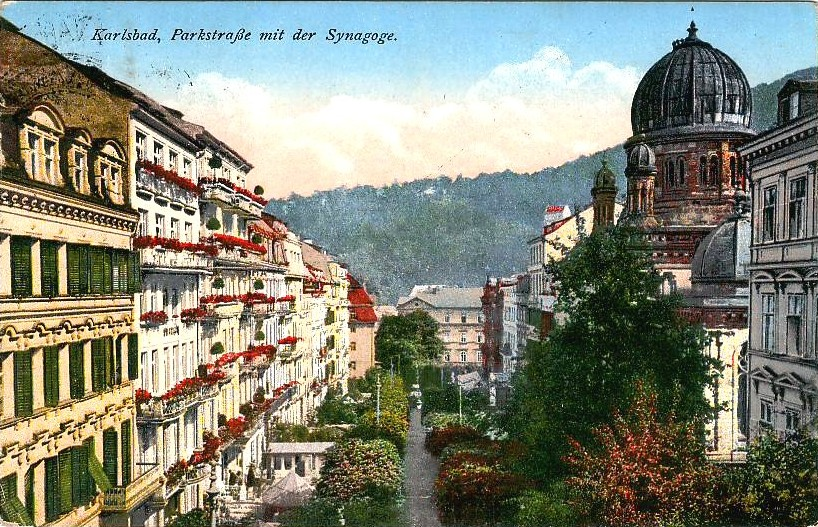 Karlsbad synagogue mit obere Parkstraße old postcard, around 1900s